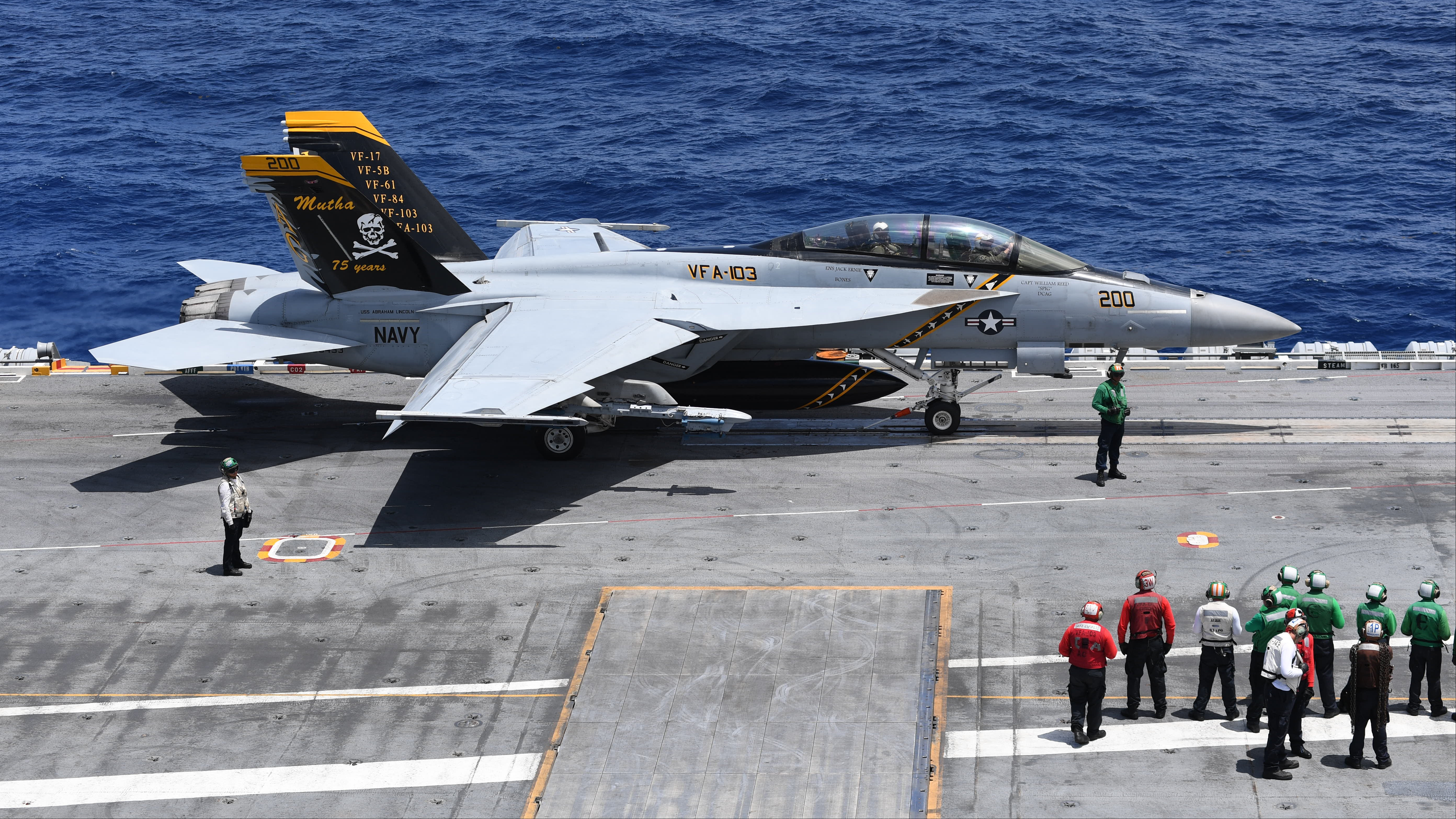 A U.S. Navy Boeing F/A-18F Super Hornet (BuNo 168493) assigned to Strike Fighter Squadron 103 (VFA-103) "Jolly Rogers" prepares to launch from the flight deck of the aircraft carrier USS Abraham Lincoln (CVN-72) in the Atlantic Ocean on 1 August 2018. Abraham Lincoln was conducting tailored ship's training availability and final evaluation problem (TSTA/FEP). TSTA prepares a ship and crew for full integration into a carrier strike group through a wide range of mission-critical operations. Note the anniversary markings of VFA-103, naming the U.S. Navy "Jolly Roger" squadrons in the last 75 years. The silhouettes of the flown aircraft are painted on the fuselage band. "Mutha" refers to the Mutha Award that is awarded to the most outstanding and spirited U.S. Navy fighter squadron. The dates 1943 and 2018 are painted on the insides of the rudders.